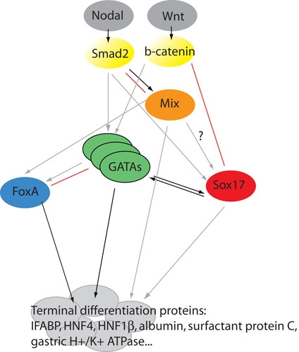 Grey arrows show inductions. Black is used when direct regulation was demonstrated. Red lines show molecular interactions. Some of the regulations have not been demonstrated in mice and may come from Zebrafish or Xenopus. Mix, Sox17 and Gatas each regulate a subset of differentiation genes (Sinner et al., 2006).